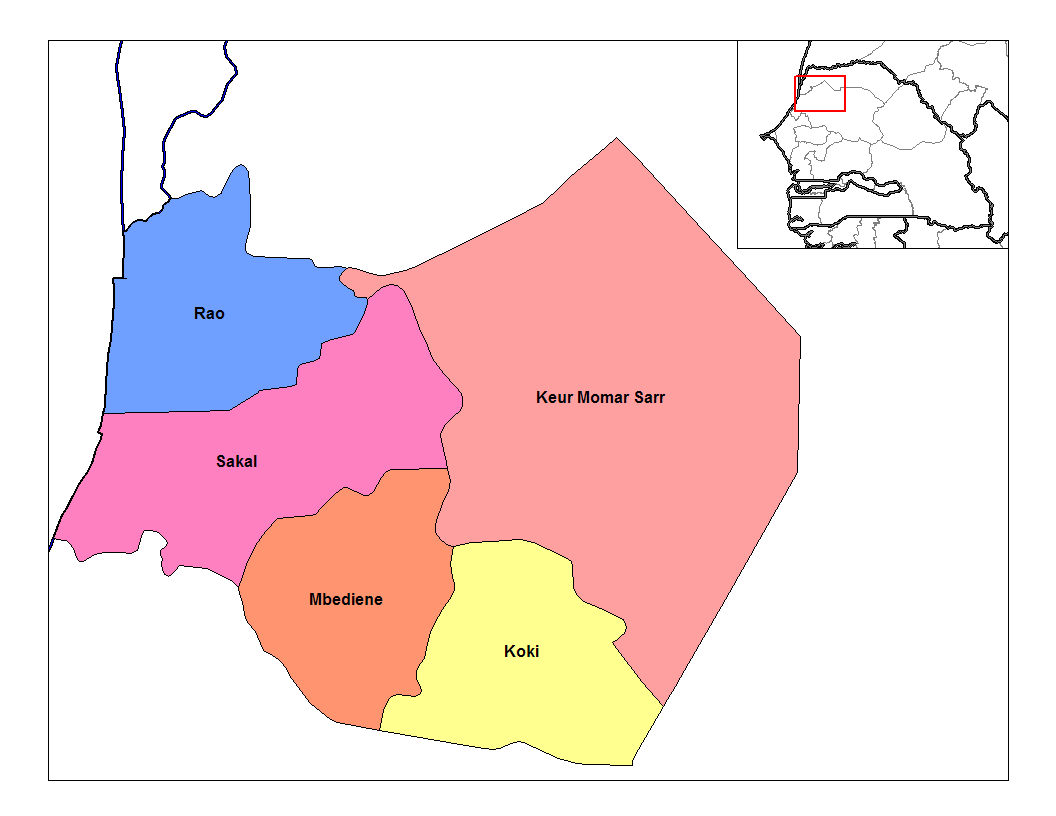 Map of the arrondissements of Louga department in Senegal.